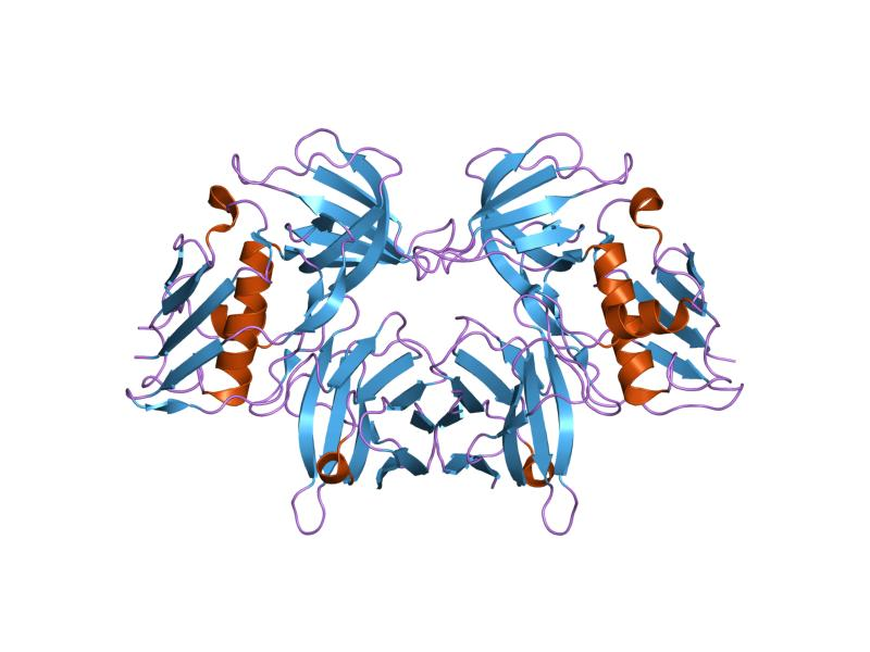 Cartoon representation of the molecular structure of protein registered with 2ij0 code.